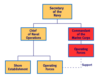 Organization of the United States Department of the Navy